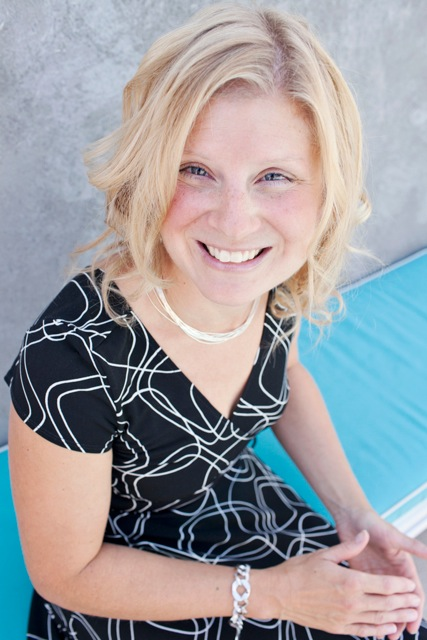 This photo was taken of Michelle Linn-Gust in the Fall of 2013.